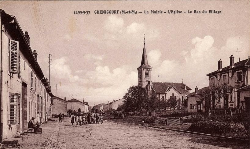 Carte postale Chenicourt ancienne